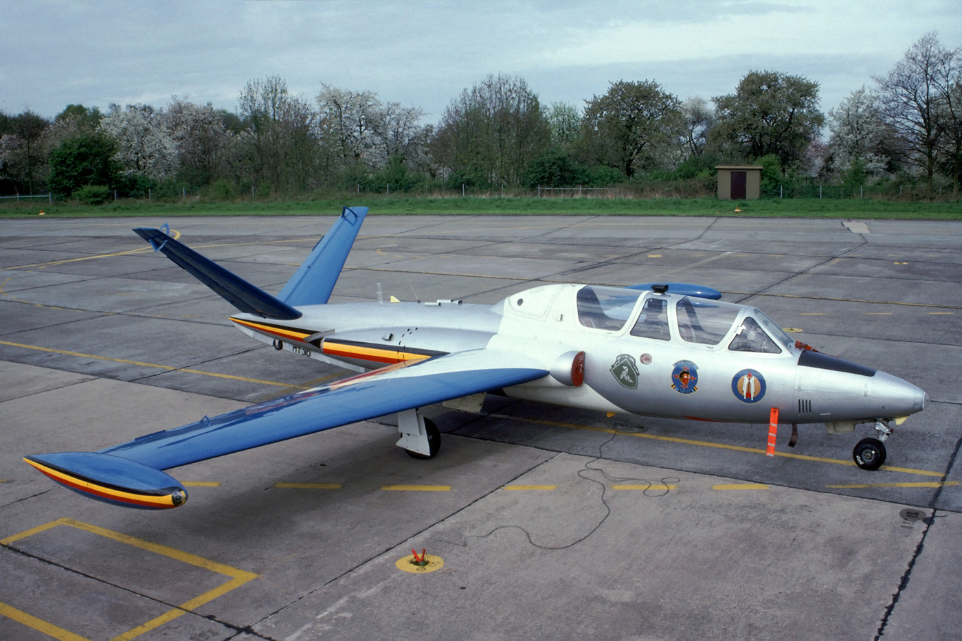 Brustem, 10 September 1989. MT30 is preserved in the town of Milmort close to Bierset airbase.